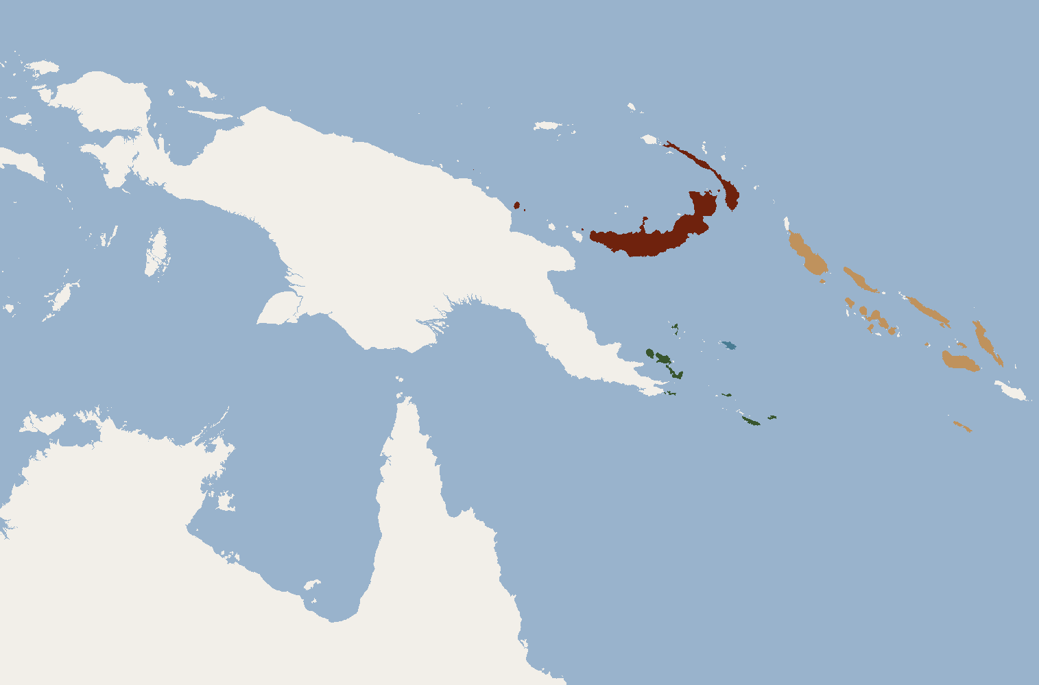 According to Flannery, 1995. Subspecific range in different colours.